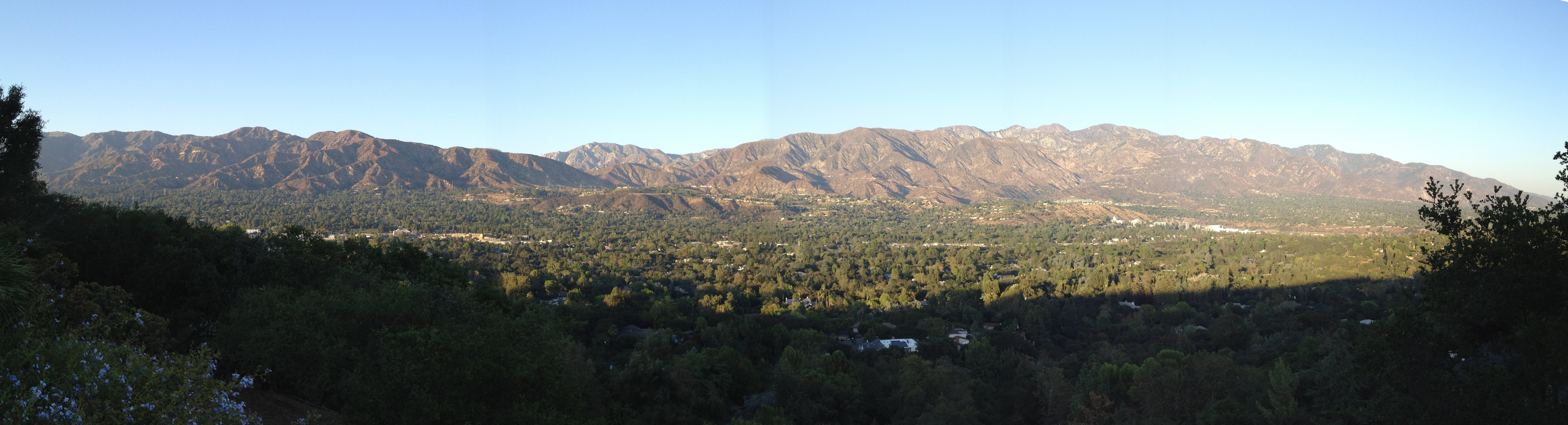 Panoramic view of San Gabriel Mountains from La Canada Flintridge, California. Jet Propulsion Laboratory, San Gabriel Peak and Mount Wilson can be seen.